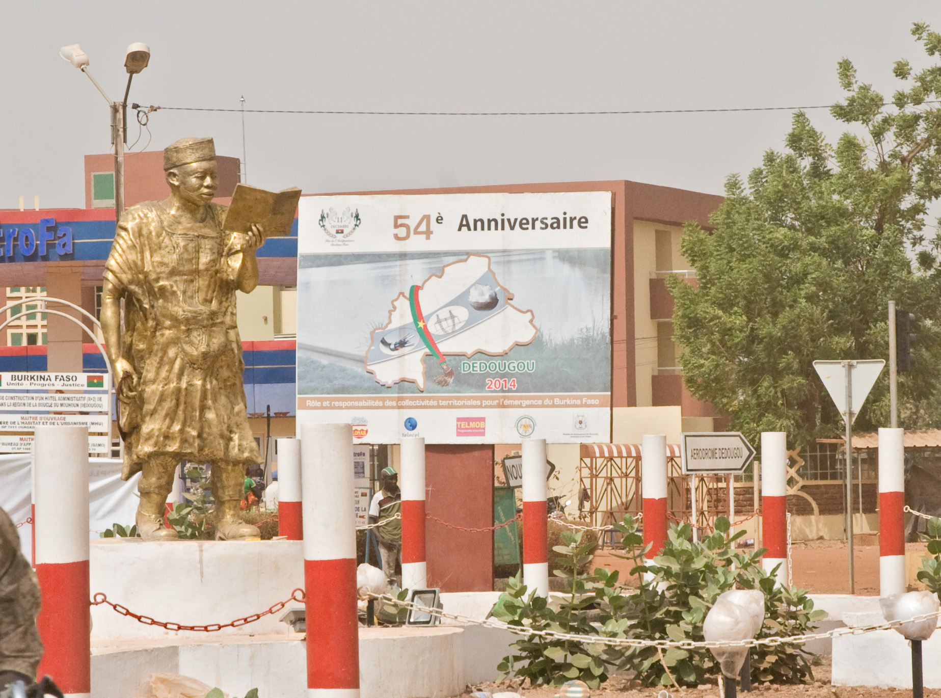 Monument for the Burkinabe politician and writer Nazi Boni in Dédougou, Burkina Faso (March 2015).